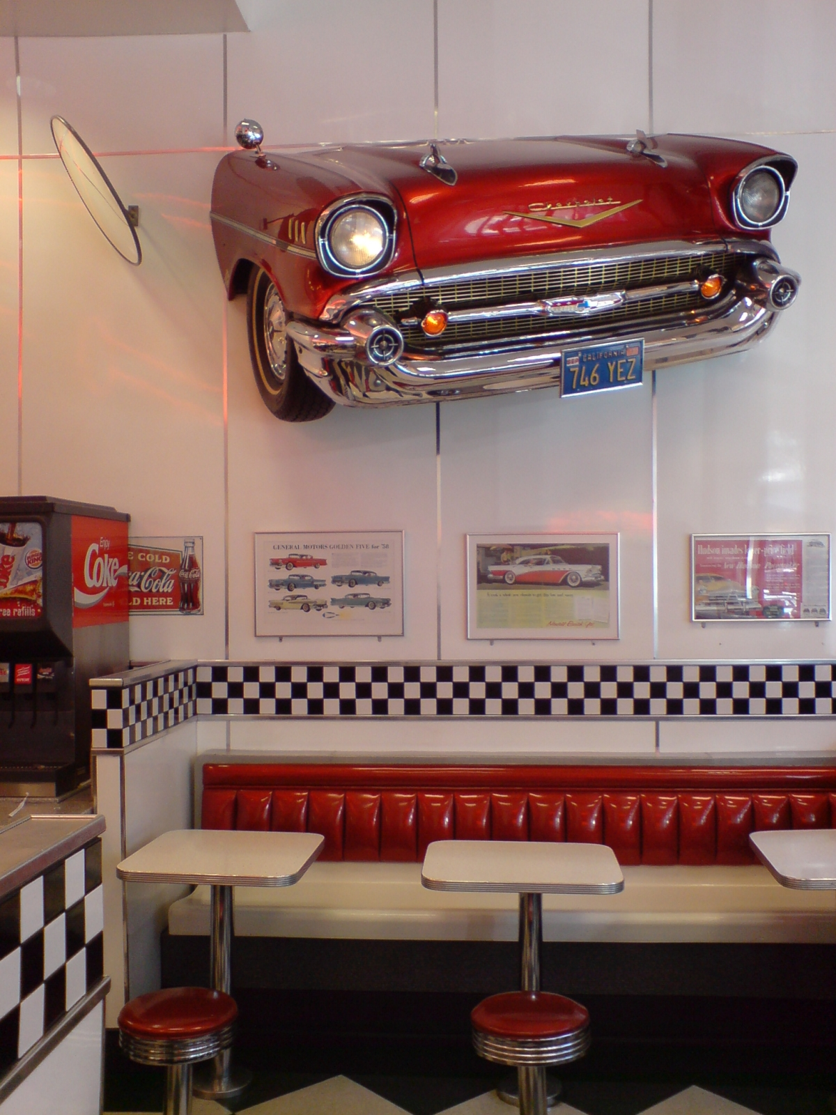 The 1950s diner aesthetic is still in fashion for some modern restaurants - here an example of the decor in a 2010 Burger King located in Newmarket, Auckland City, New Zealand.